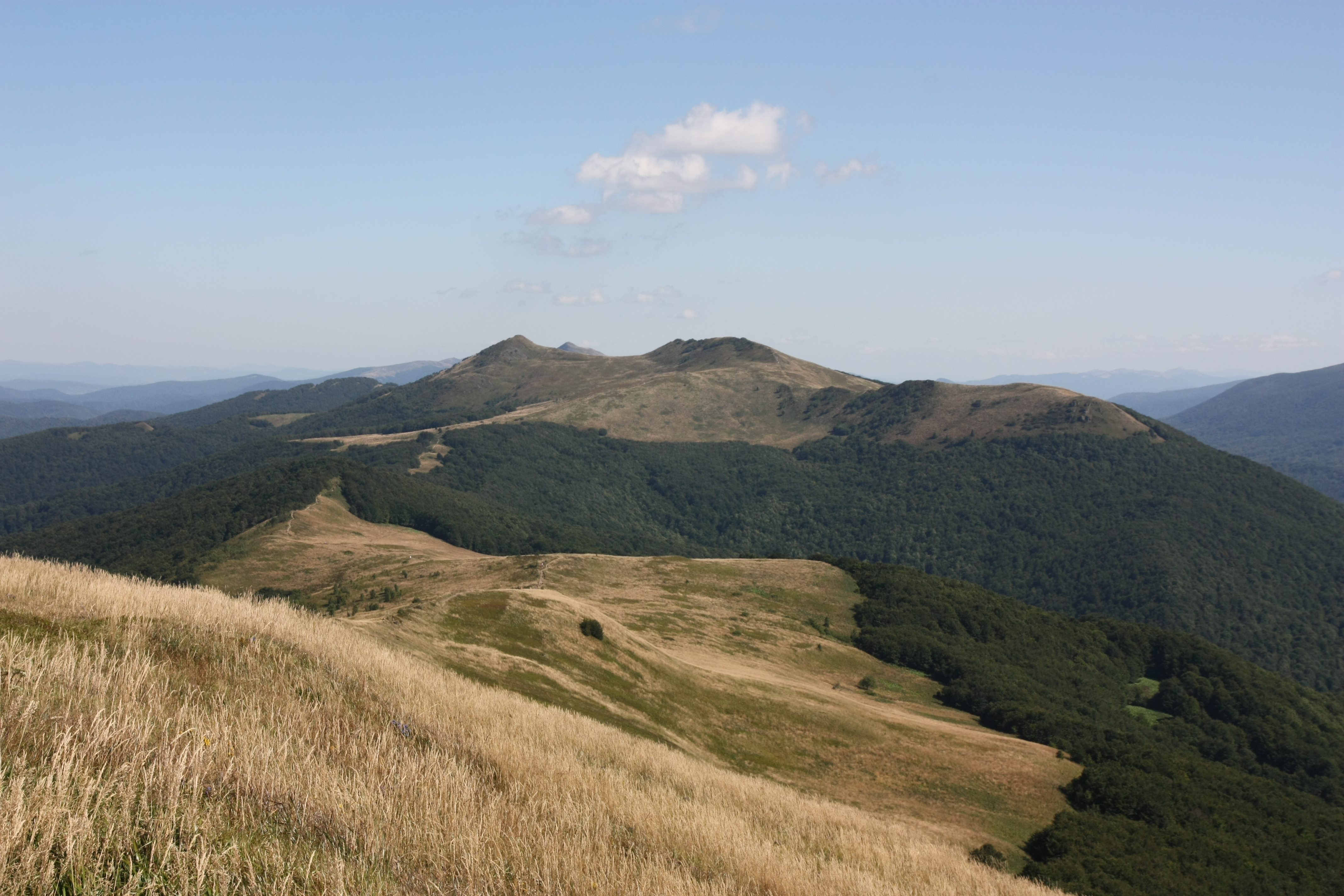 View from Smerek at Połonina Wetlińska.